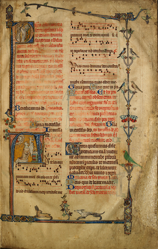 This beautiful Missal made from parchment originates from East Anglia. It is considered a very important manuscript as it is one of the earliest examples of a Missal of an English source. Sarum Missals were books produced by the Church during the Middle Ages for celebrating Mass throughout the year